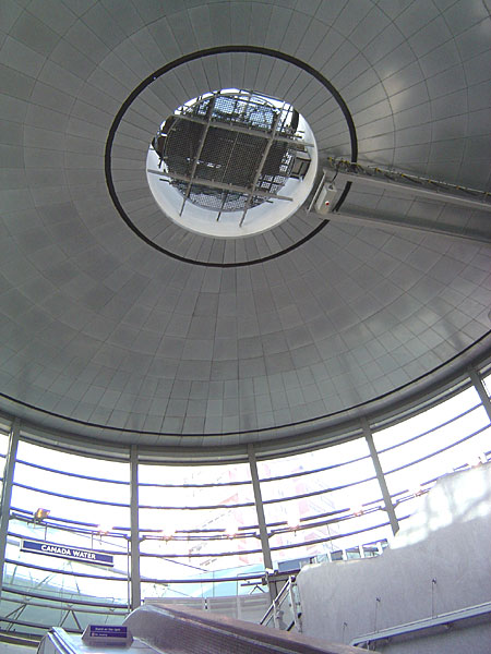 Below-ground view of the "drum" at Canada Water